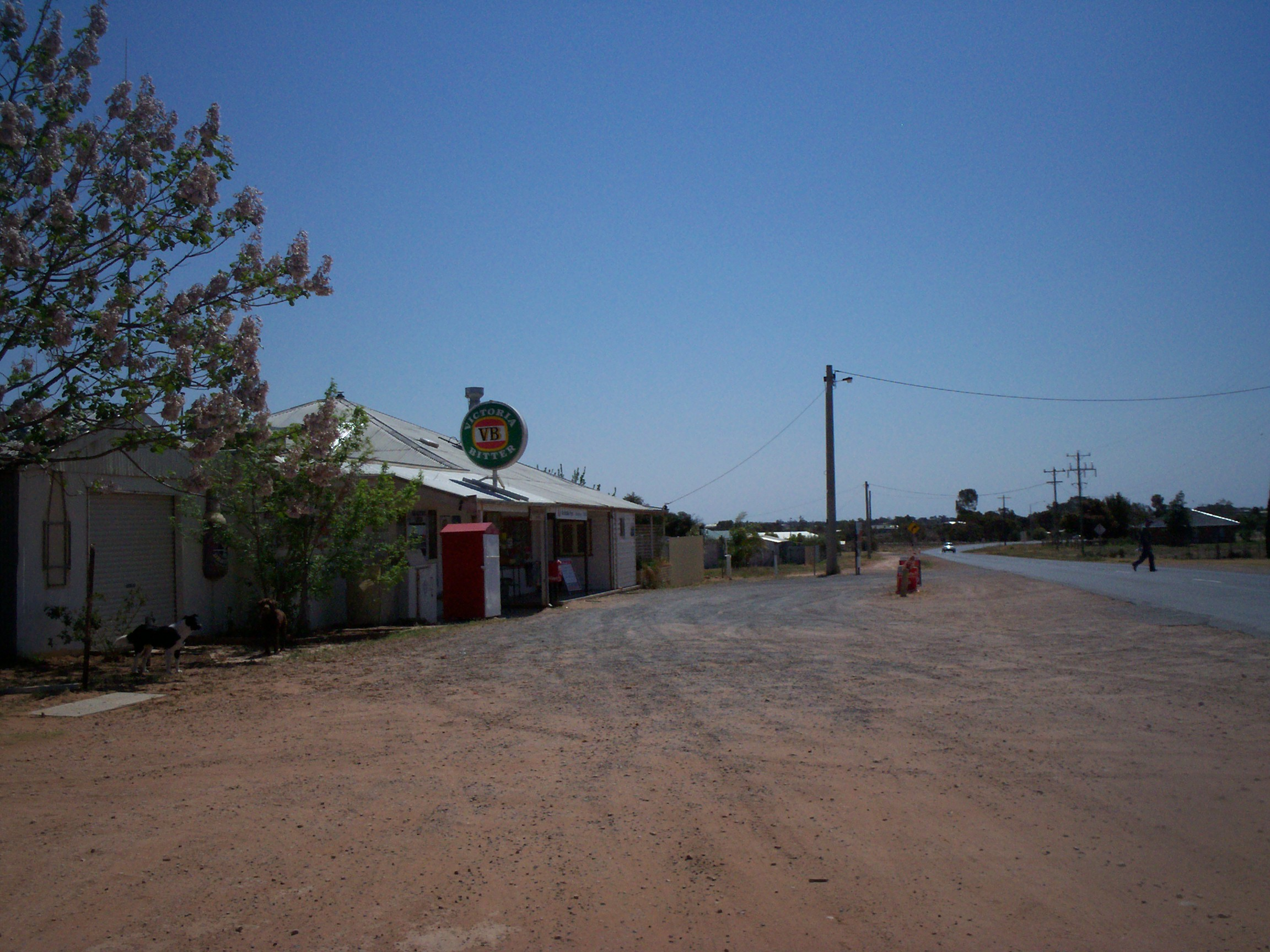 Koorlong, Victoria, Photograph taken by myself, September 30, 2007.